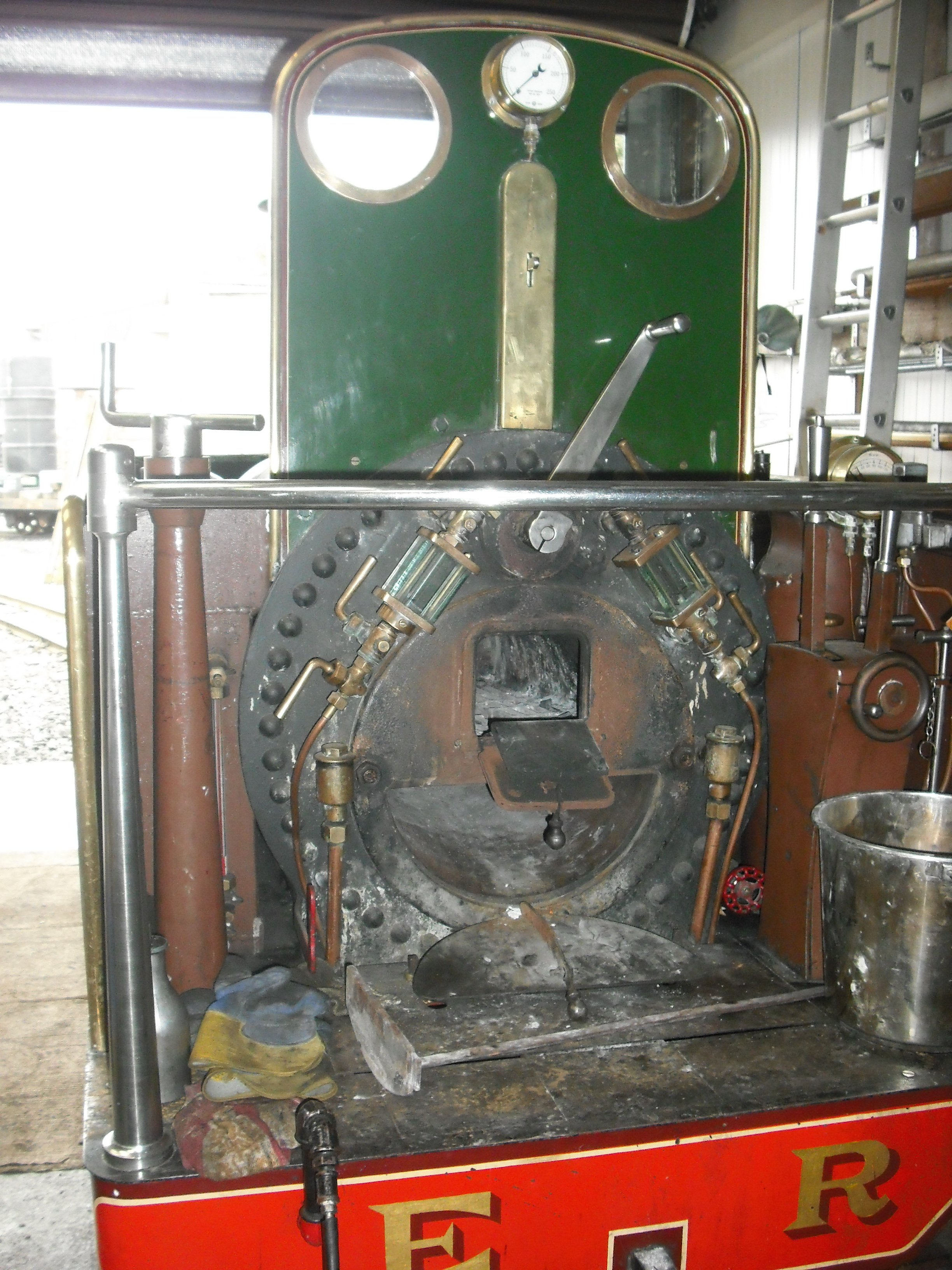 steam locomotive Ursula of the Perrrygrove Railway, modelled on Ursula of Sir Arthur Heywood's Eaton Hall Railway